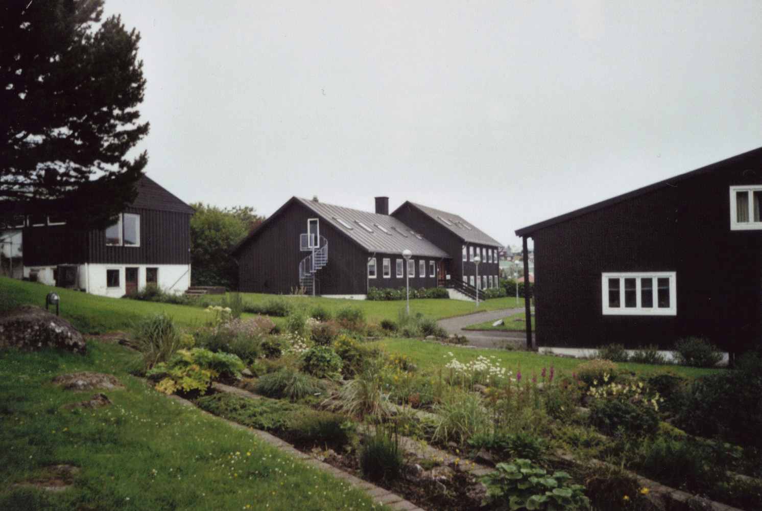 Býarpark and University, Tórshavn